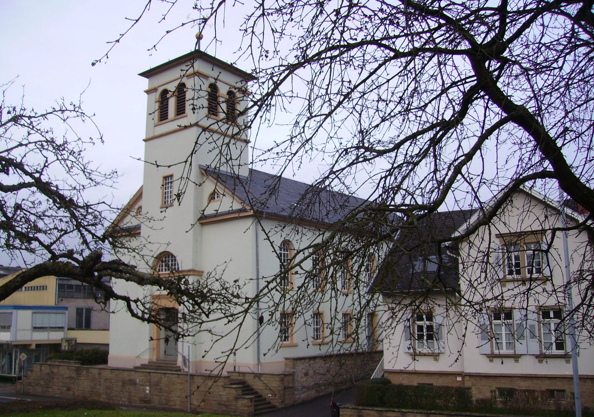 Zuzenhausen in southern Germany